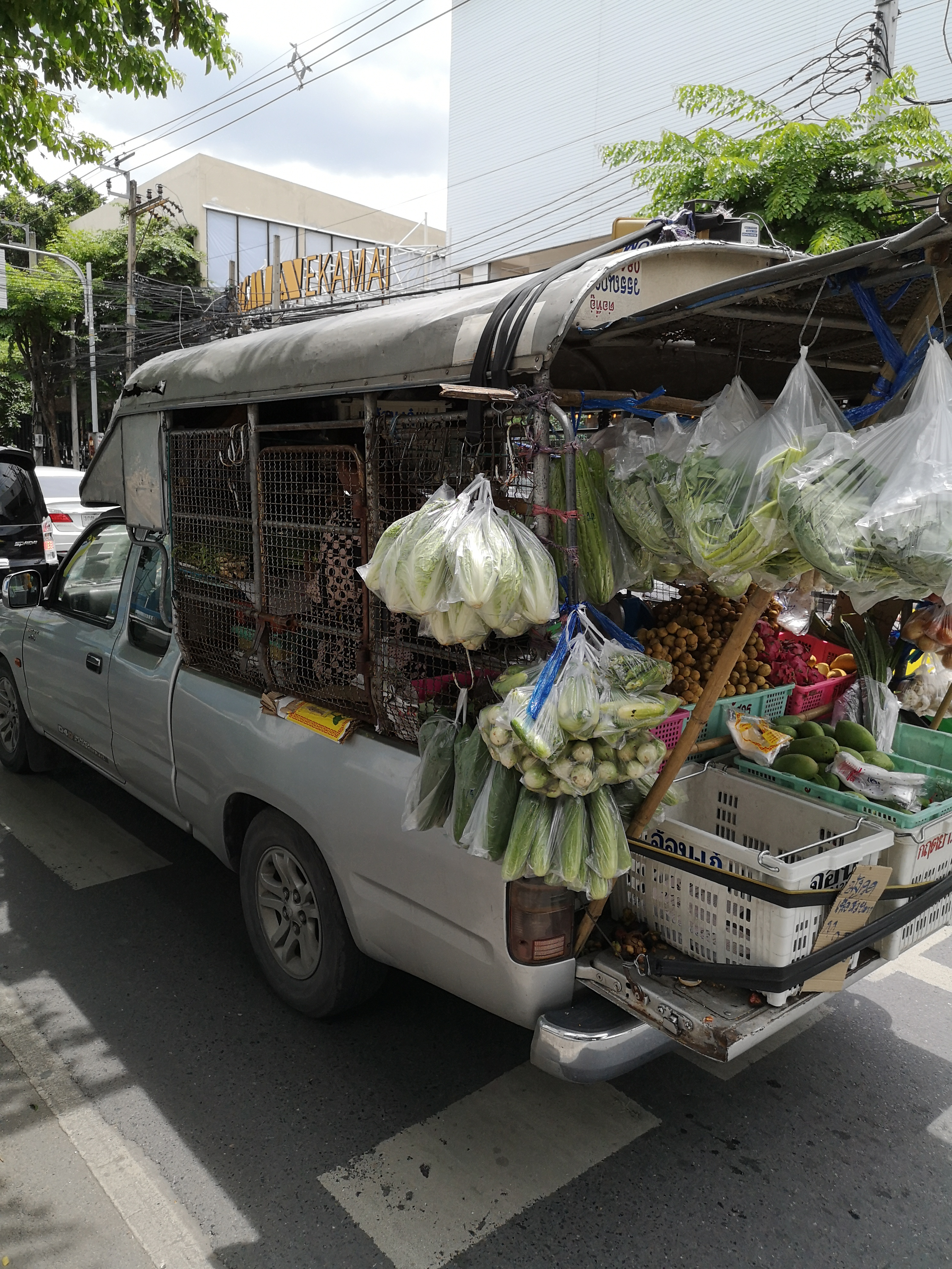 Mobile grocery in Bangkok.